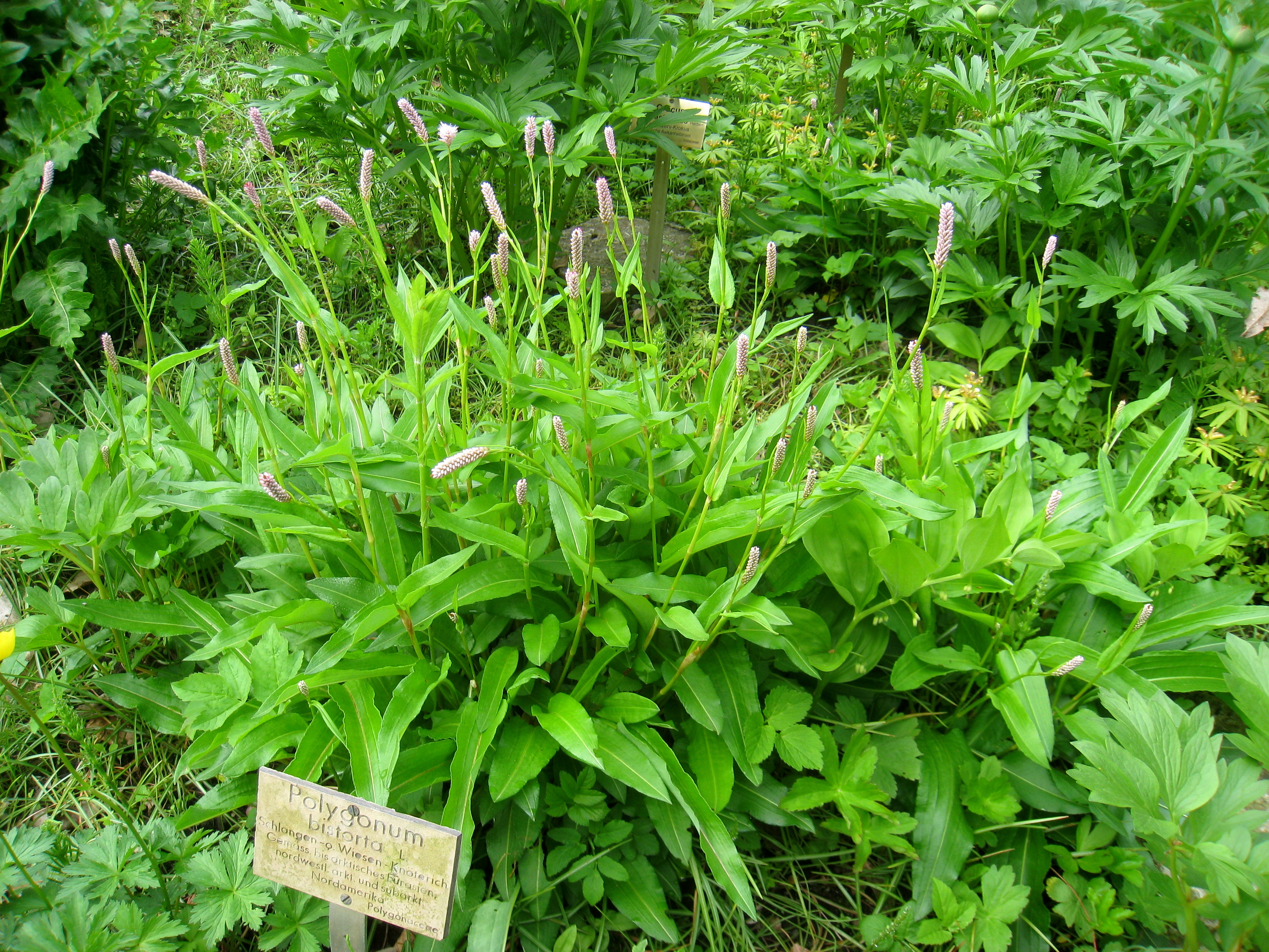 Bistorta officinalis (also known as Polygonum bistorta) specimen, in the Botanischer Garten, Berlin-Dahlem (Berlin Botanical Garden), Berlin, Germany.